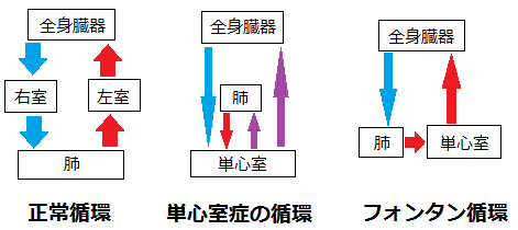 Illustrated example of normal circulation, circulation of single ventricle, and Fontan circulation. Red represents arterial blood (oxygenated blood), blue represents venous blood (deoxygenated blood), and purple represents cyanosis.